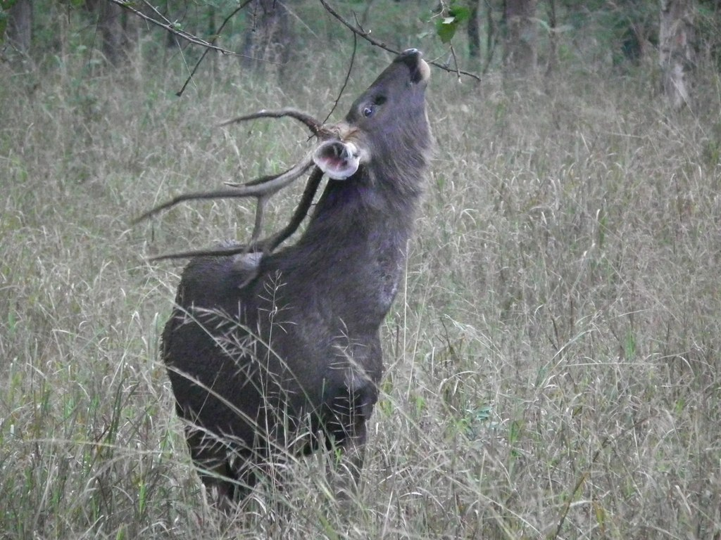 Sambar Stag browsing in Pench or Kanha, Madhya Pradesh, India